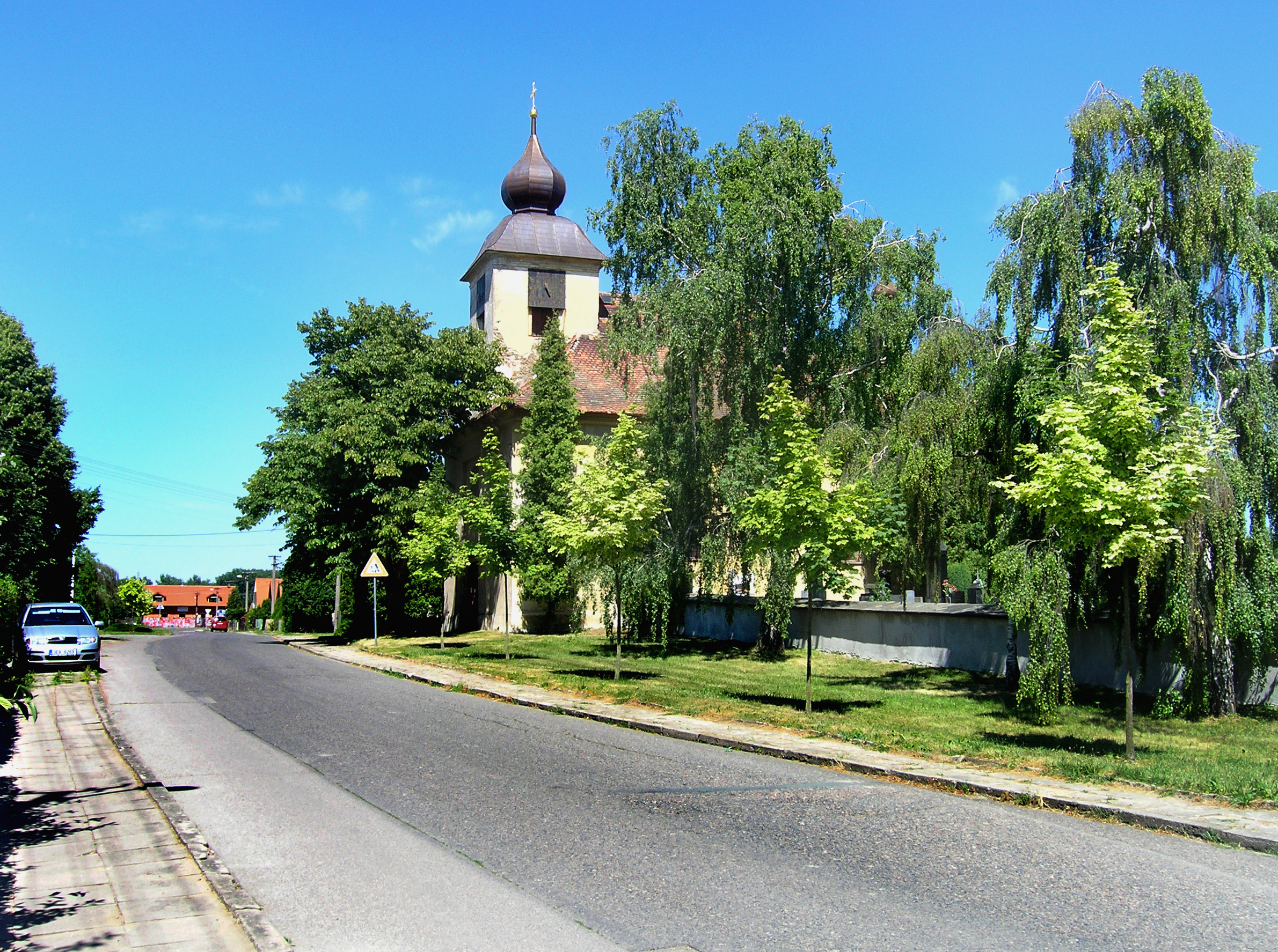 Church in Lány na Důlku, part of Pardubice, Czech Republic